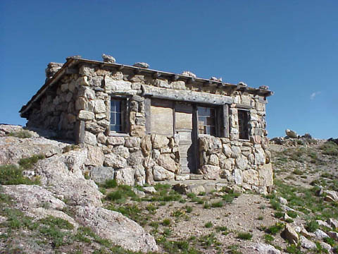 Front of the Fall River Pass Ranger Station, located on Fall River Pass west of Estes Park in the Larimer County portion of Rocky Mountain National Park in the U.S. state of Colorado. Built in 1922, it is listed on the National Register of Historic Places.